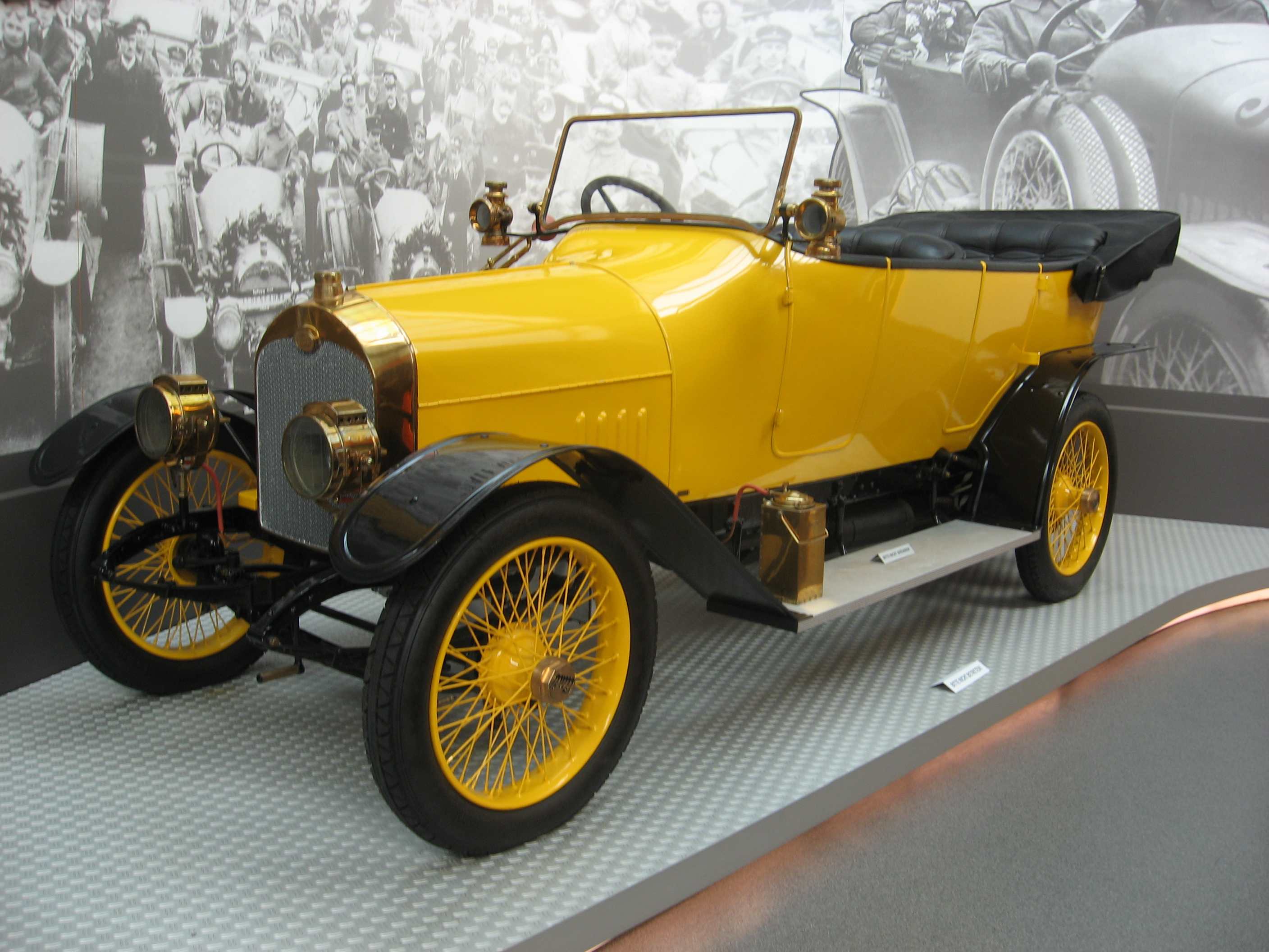 Subject: Audi Typ B Author: Luc106 Date:June 12th, 2011 Place: Horch Museum Town/Country: Zwickau (Germany) I release all rights in the public domain.